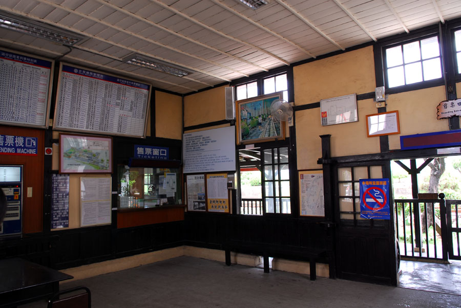 JhuiFen Station is a local train station of Taiwan's Western main rail line. It's located within the boundary of DaDu Township, TaiChung County. This photo shows the wooden interior well-kept by the authorities.